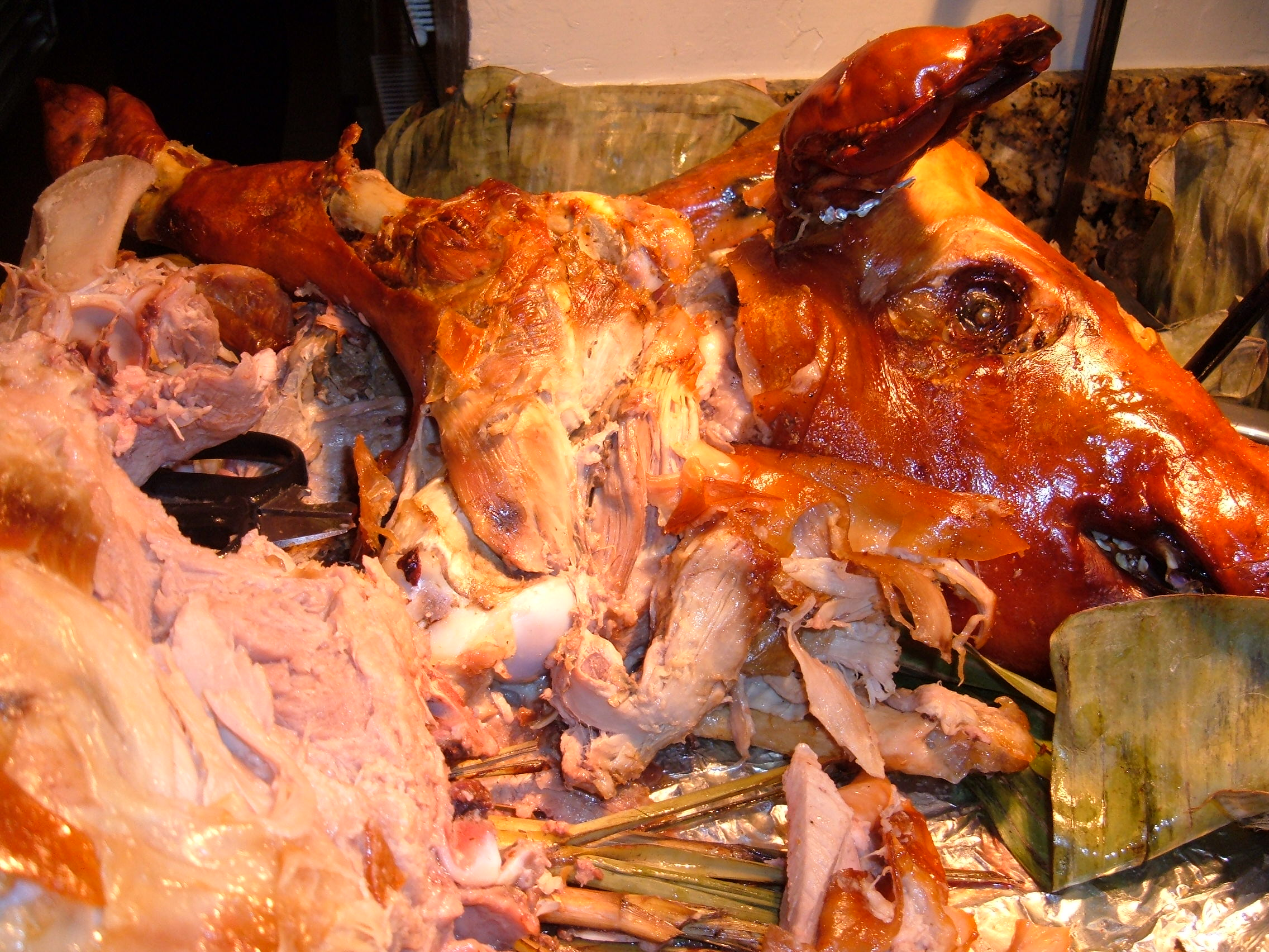 Lechón from Taste Buds in San Bruno, California.